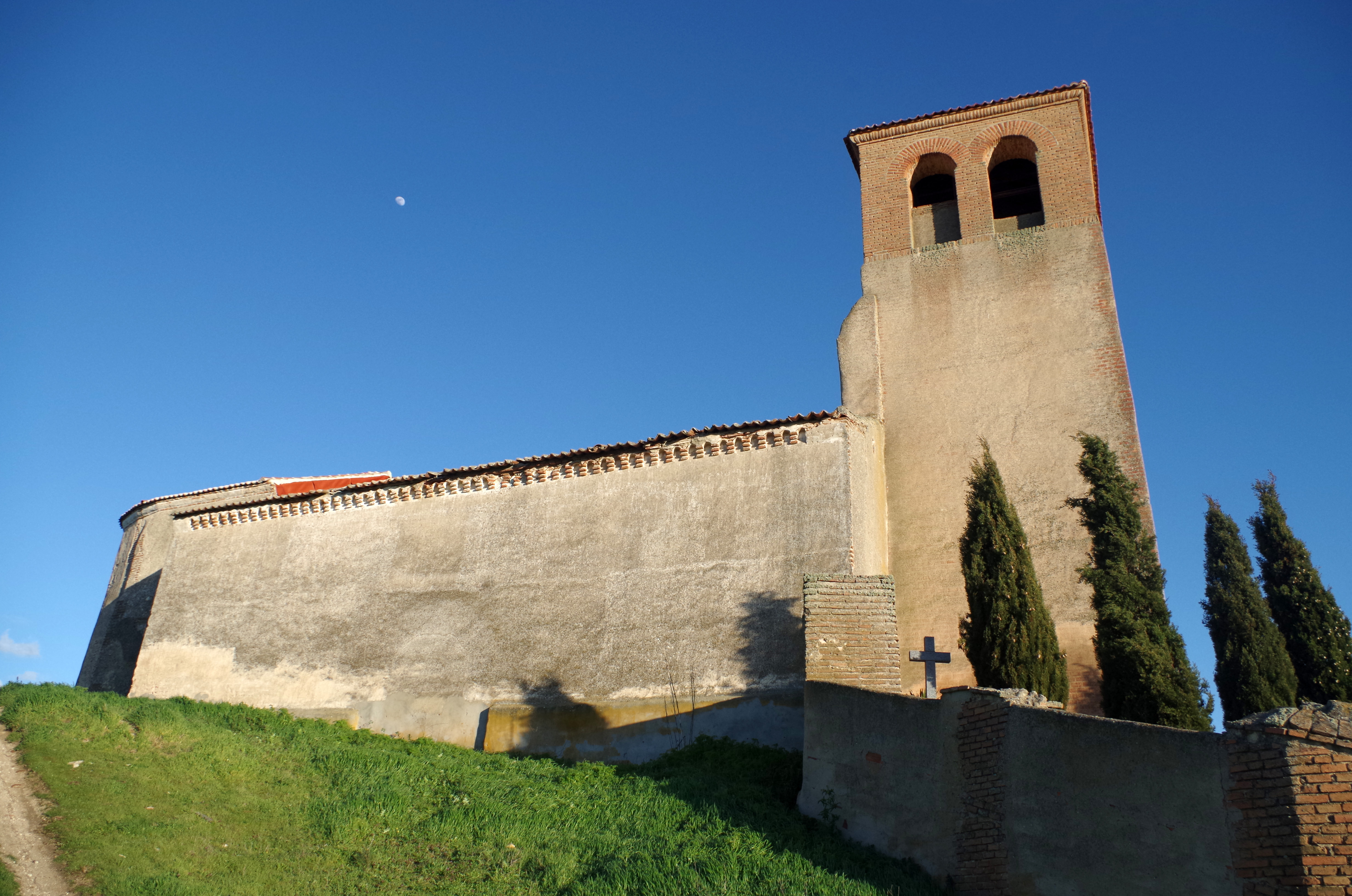 Church of Saint Christopher in San Cristóbal de la Vega, Segovia, Spain.